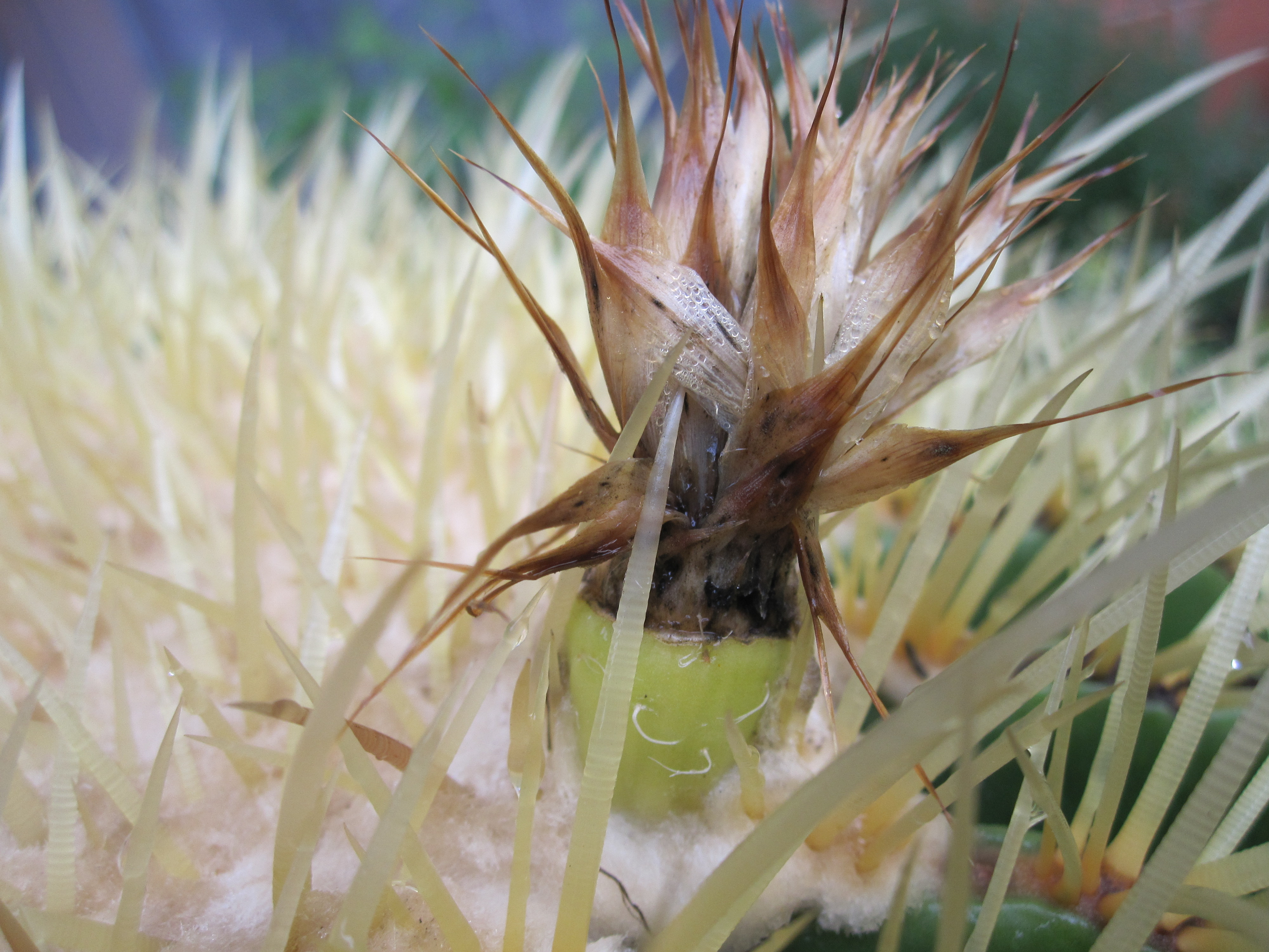 Echinocactus grusonni: the fruit